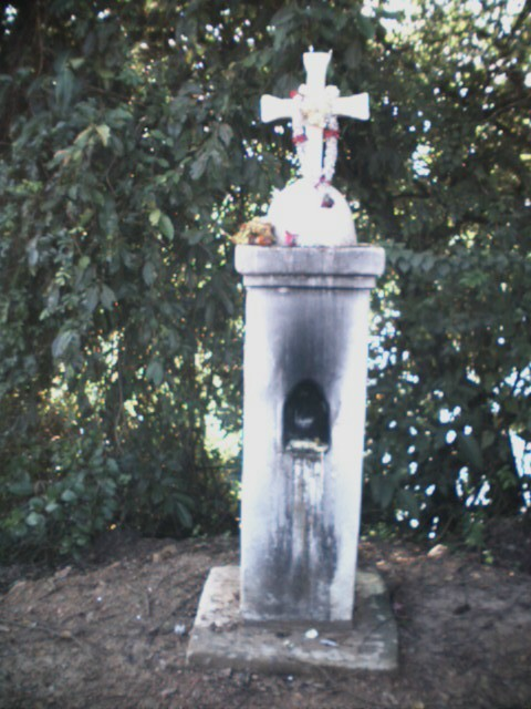 Christian shrine outside Sarzora Village, Goa, India